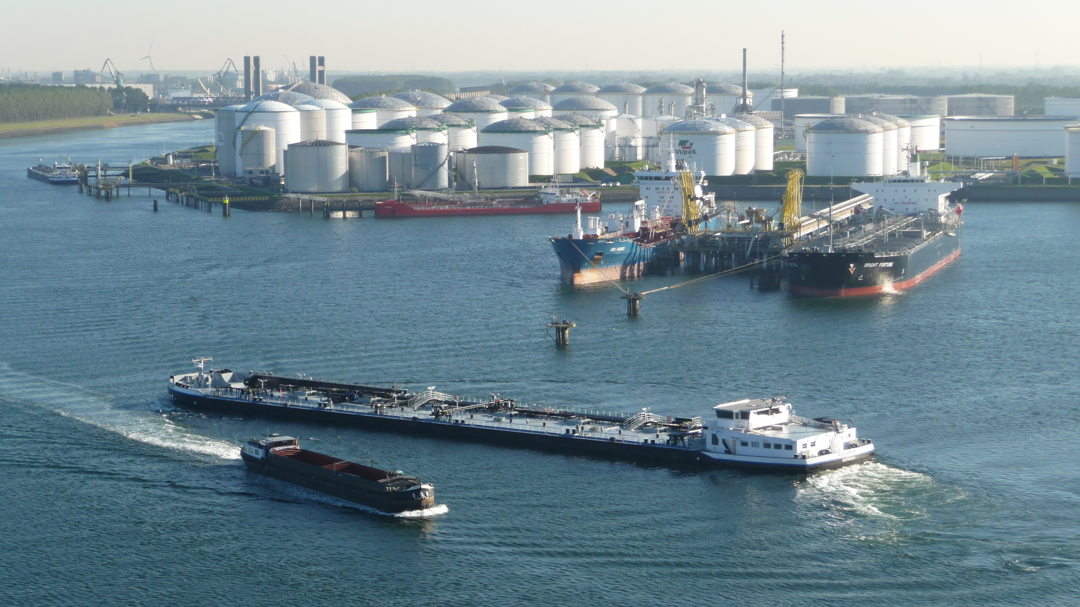 Inland tanker Vlissingen passing the 7th Petroleumharbour